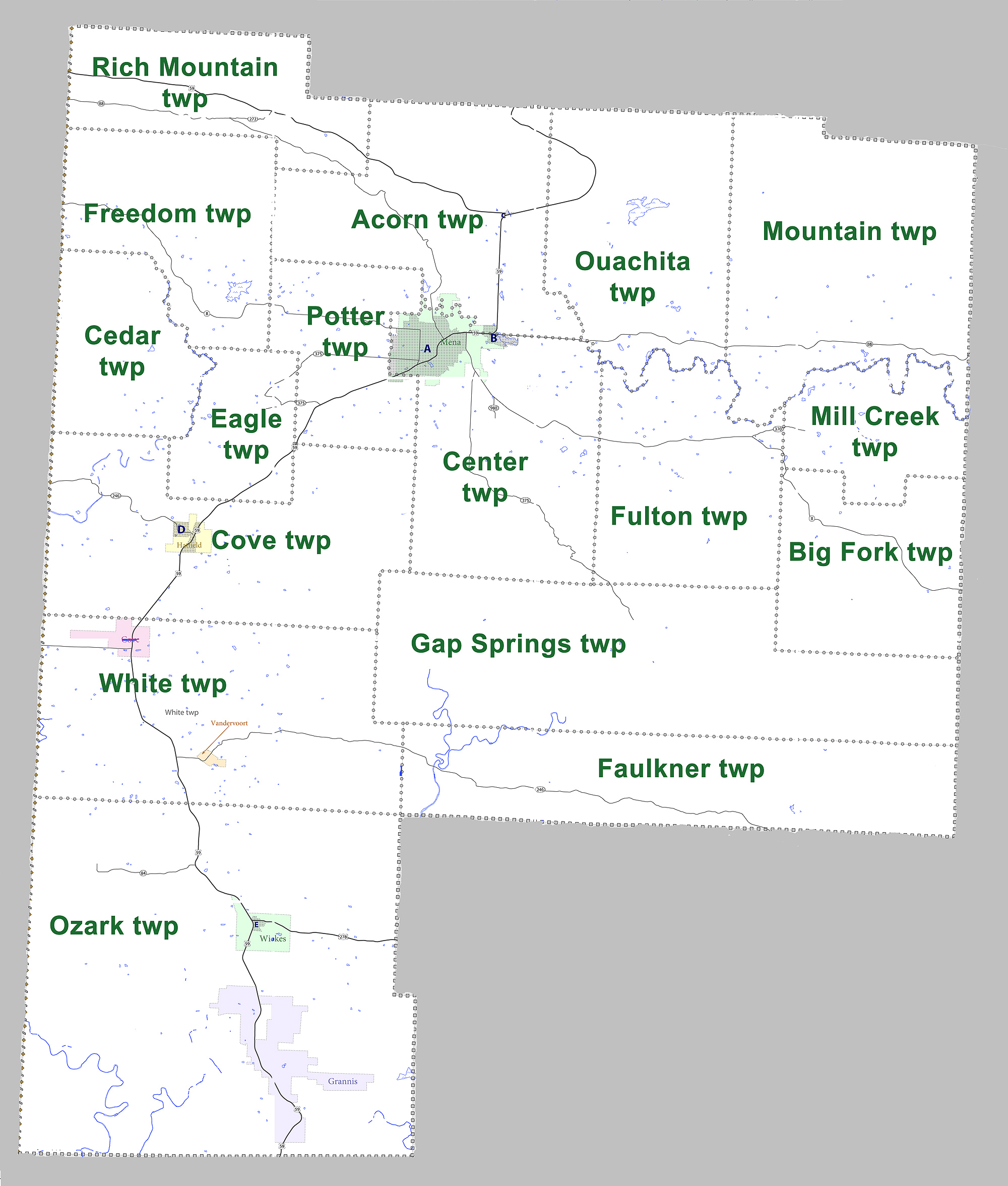 Large map showing townships in Polk County, Arkansas. Modified from US census map (for 2010 census) for Polk County, Arkansas